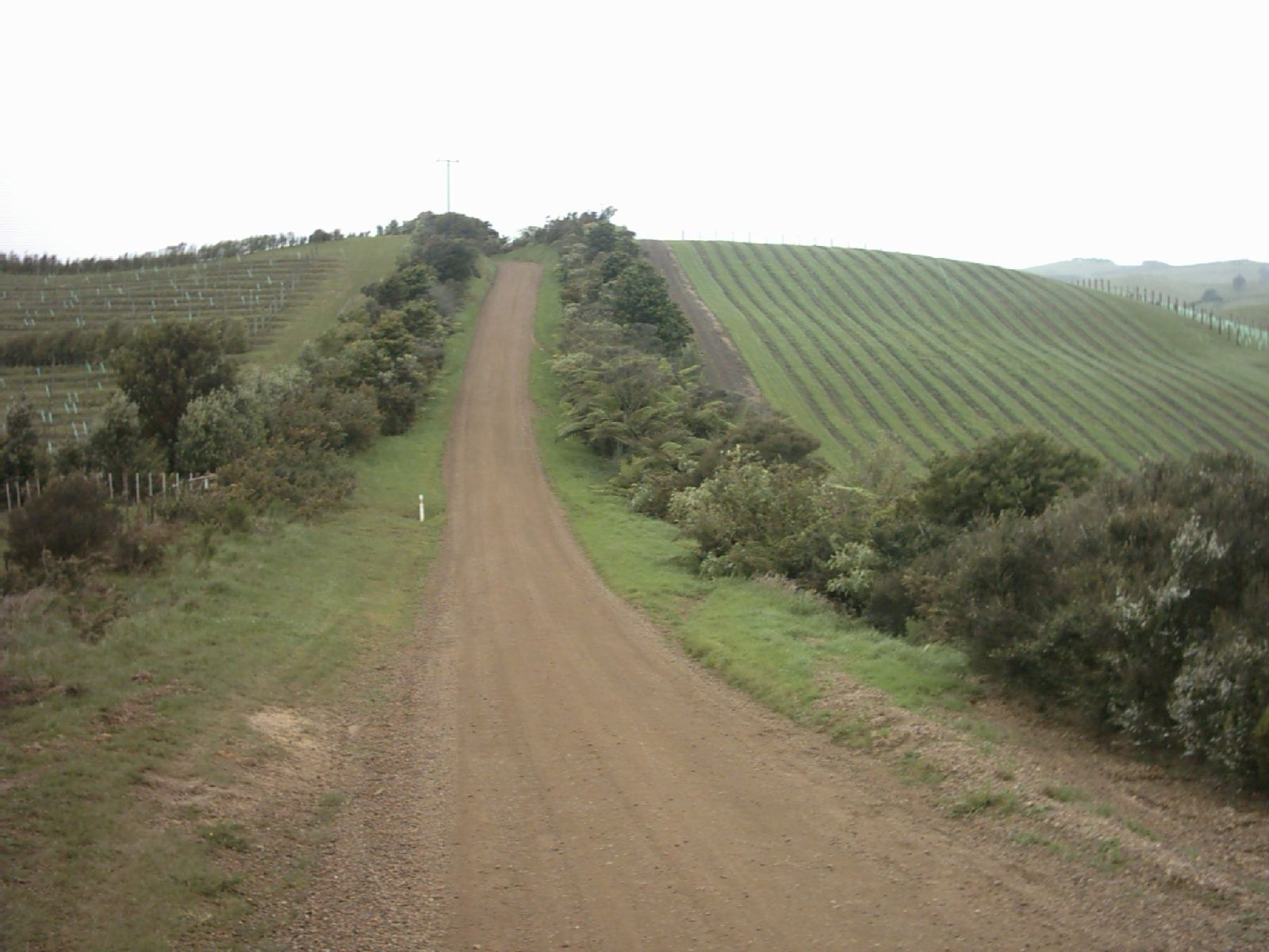 Gravel road in the north-east of Waiheke Island, New Zealand, looking east. Showing the vineyards and other large, mostly agricultural estates dominant there (as opposed to the more residential western part of the island).